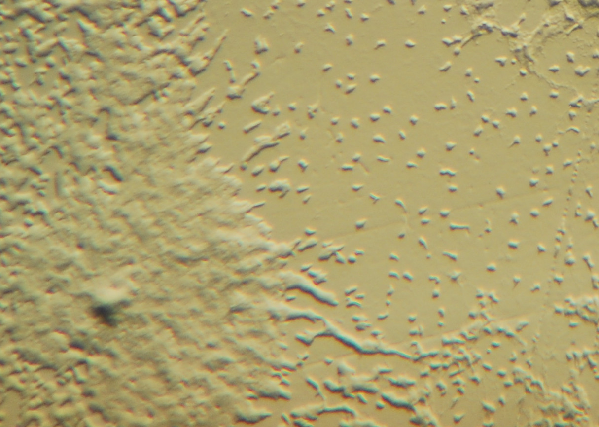 Dictyostelium Myxamebas